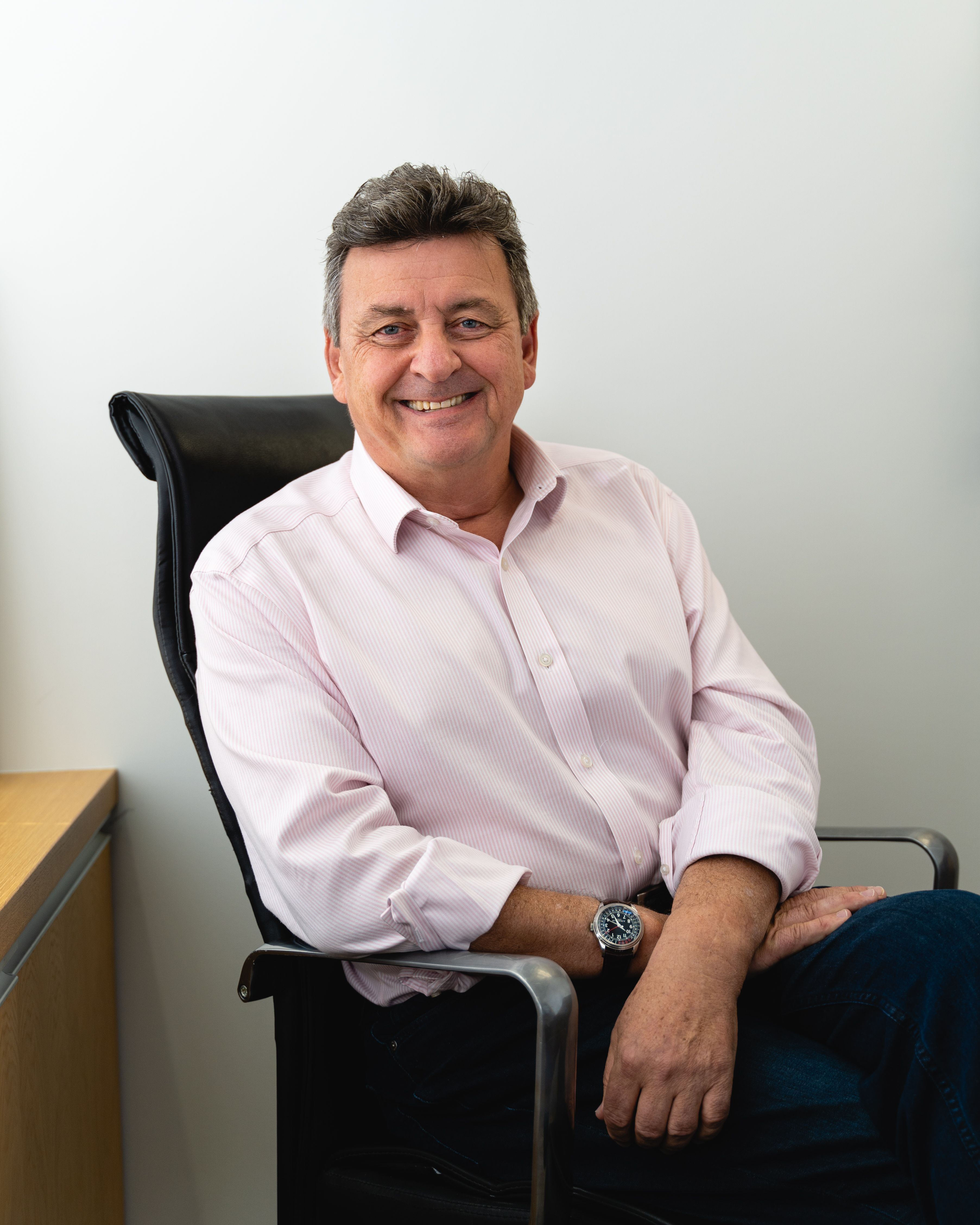 Andrew Barnes - Architect of the 4 Day Week Global Campaign